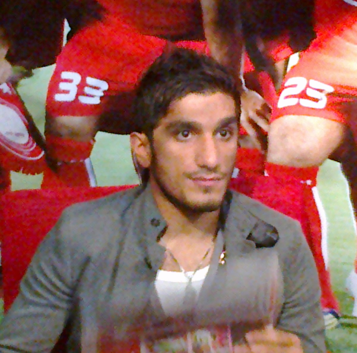 Hamidreza Aliasgari, Iranian football player